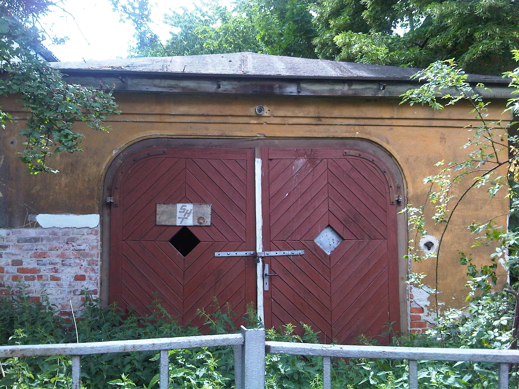 WUWA gate